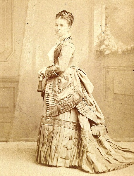 Portrait of California pioneer, Sarah (Sallie) Fox Allen (1846 – 1913). The photograph depicts her in her wedding dress